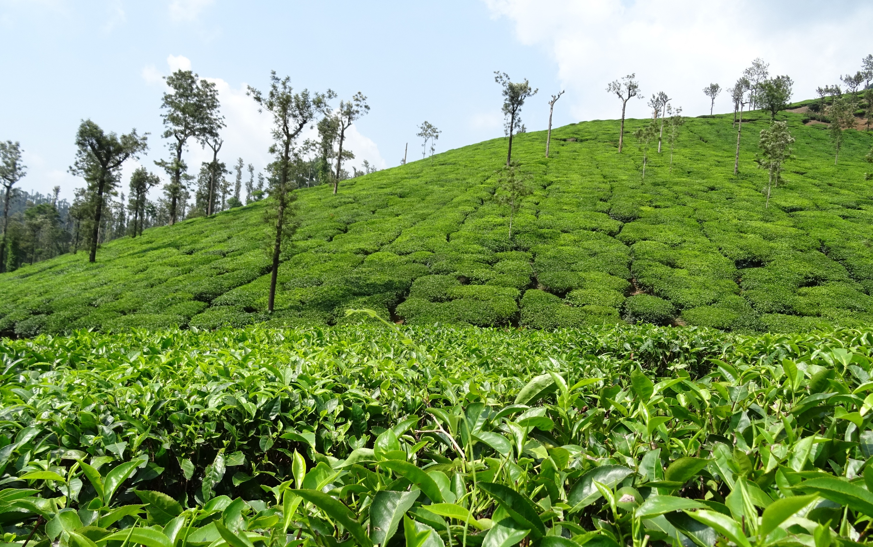 Samse Shree Ganga Plantation